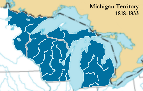 Map of Michigan Territory from 1818 until 1833; created in October 2004 by User:jengod.